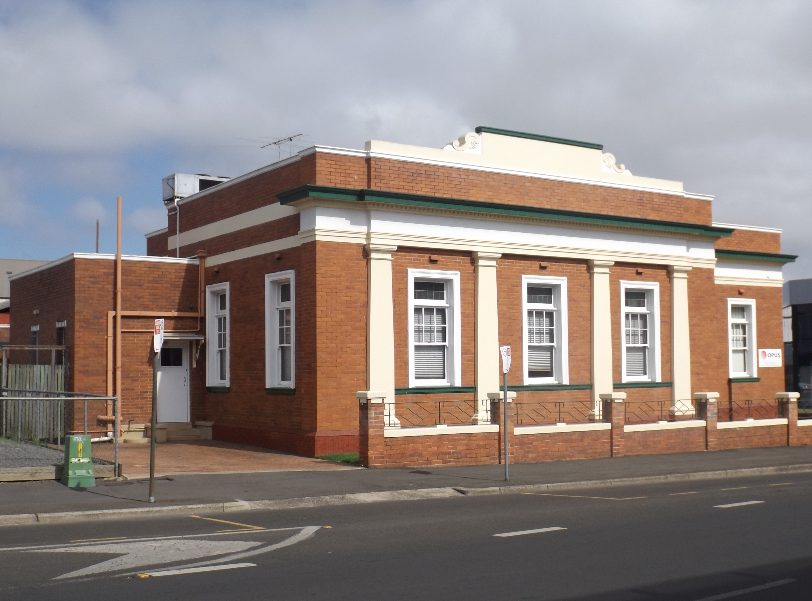 Photo of Toowoomba Permanent Building Society and Neil Street in Toowoomba City, Queensland, Australia.